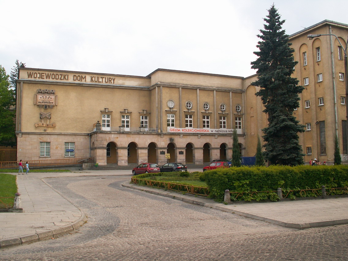 Voivodeship Culture Centre in Kielce (Poland)